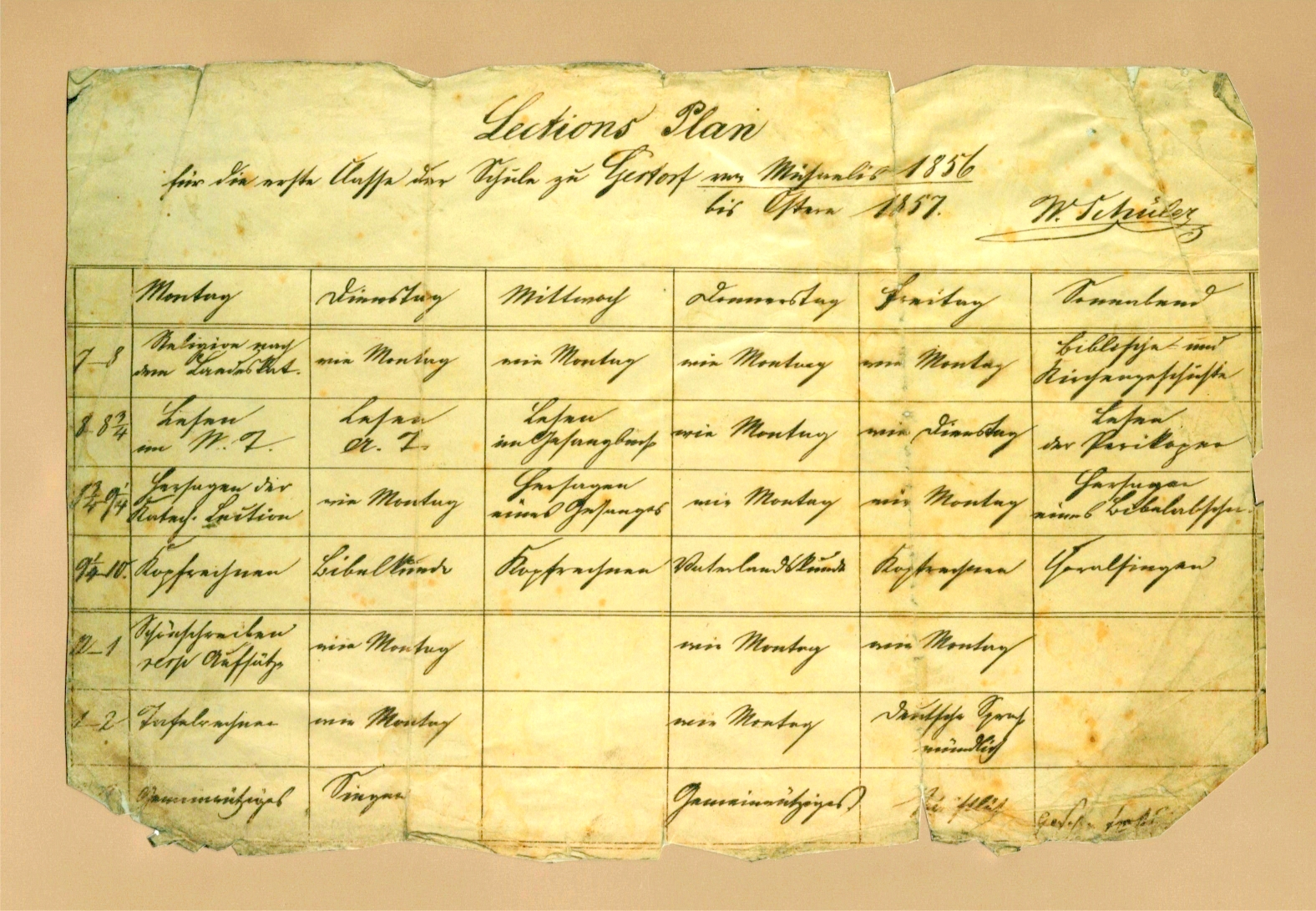 Timetable of the ev. luth. elementary school in Gestorf from the year 1856